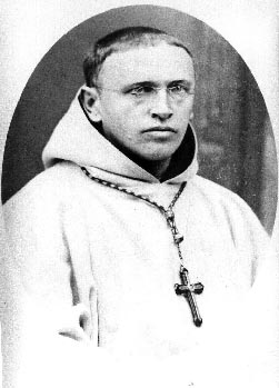 Dom Martin I